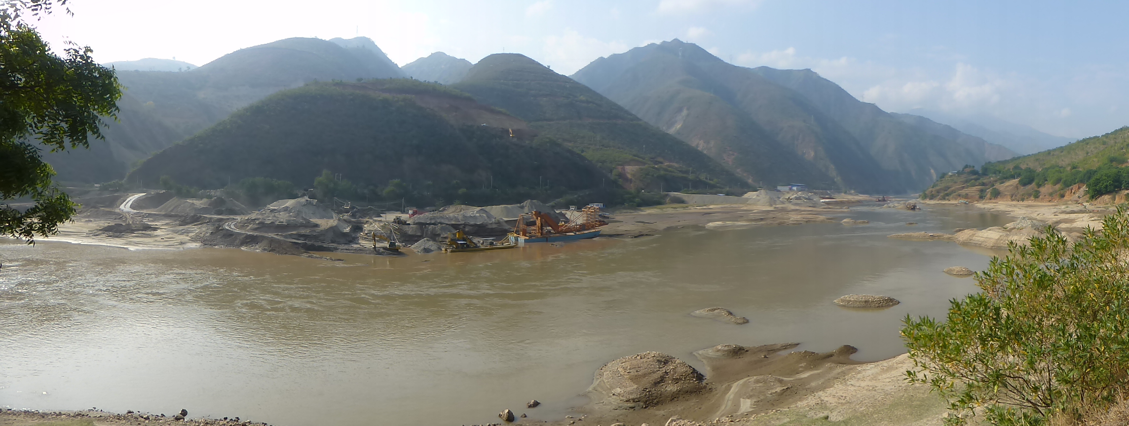 The Red River, between Nansha Town (Yuanyang County) and Abang Village (Baohe Township, Gejiu City). Dredges mining sand from the river bottom can be seen in the river. View from County Road 102 on the river's north side